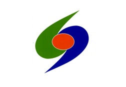 Flag of Kumakōgen, Ehime